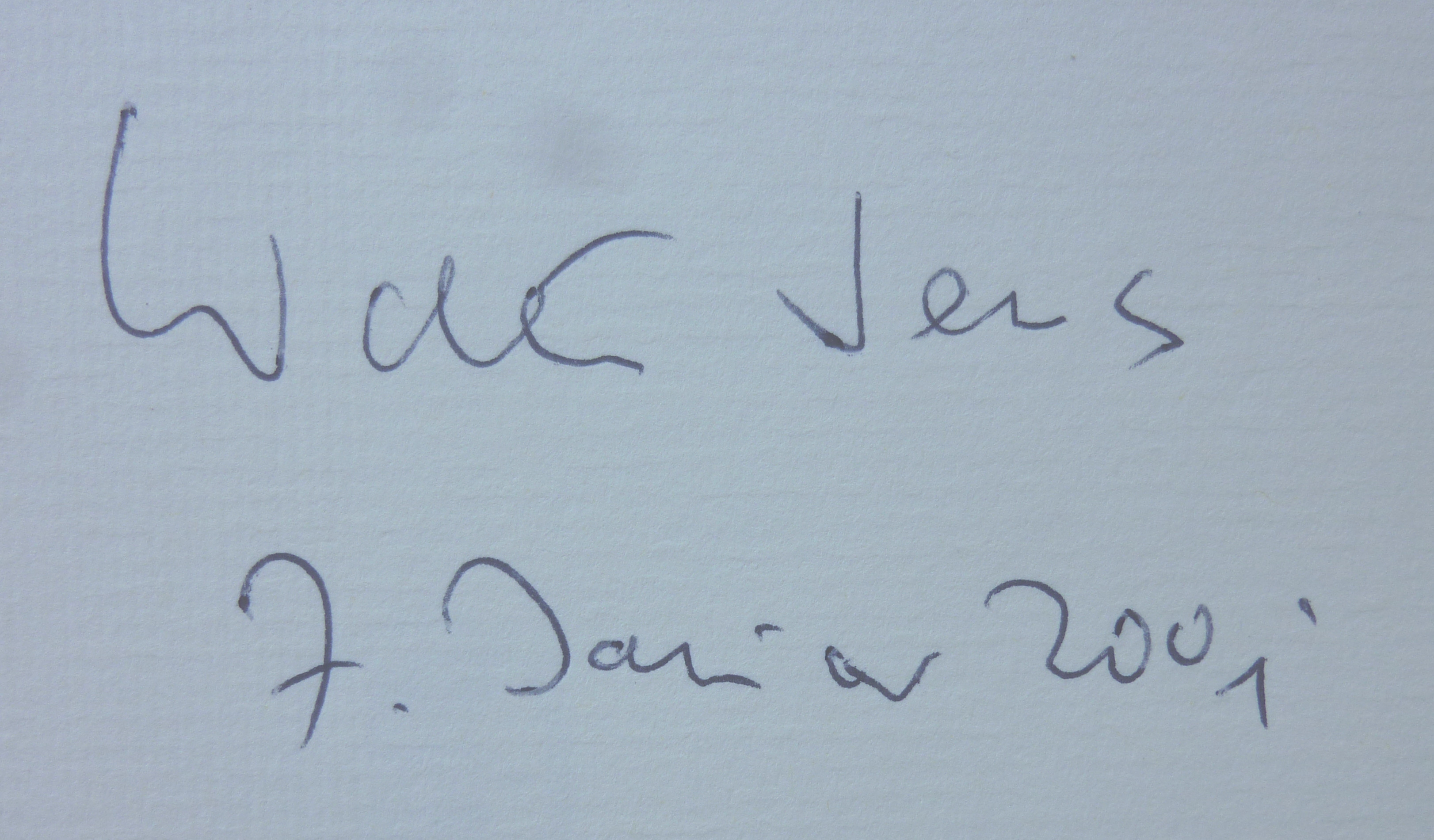 Autograph of Walter Jens, Germany, 2001-01-07